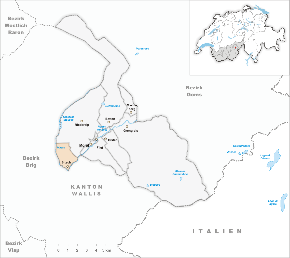 Municipality Bitsch